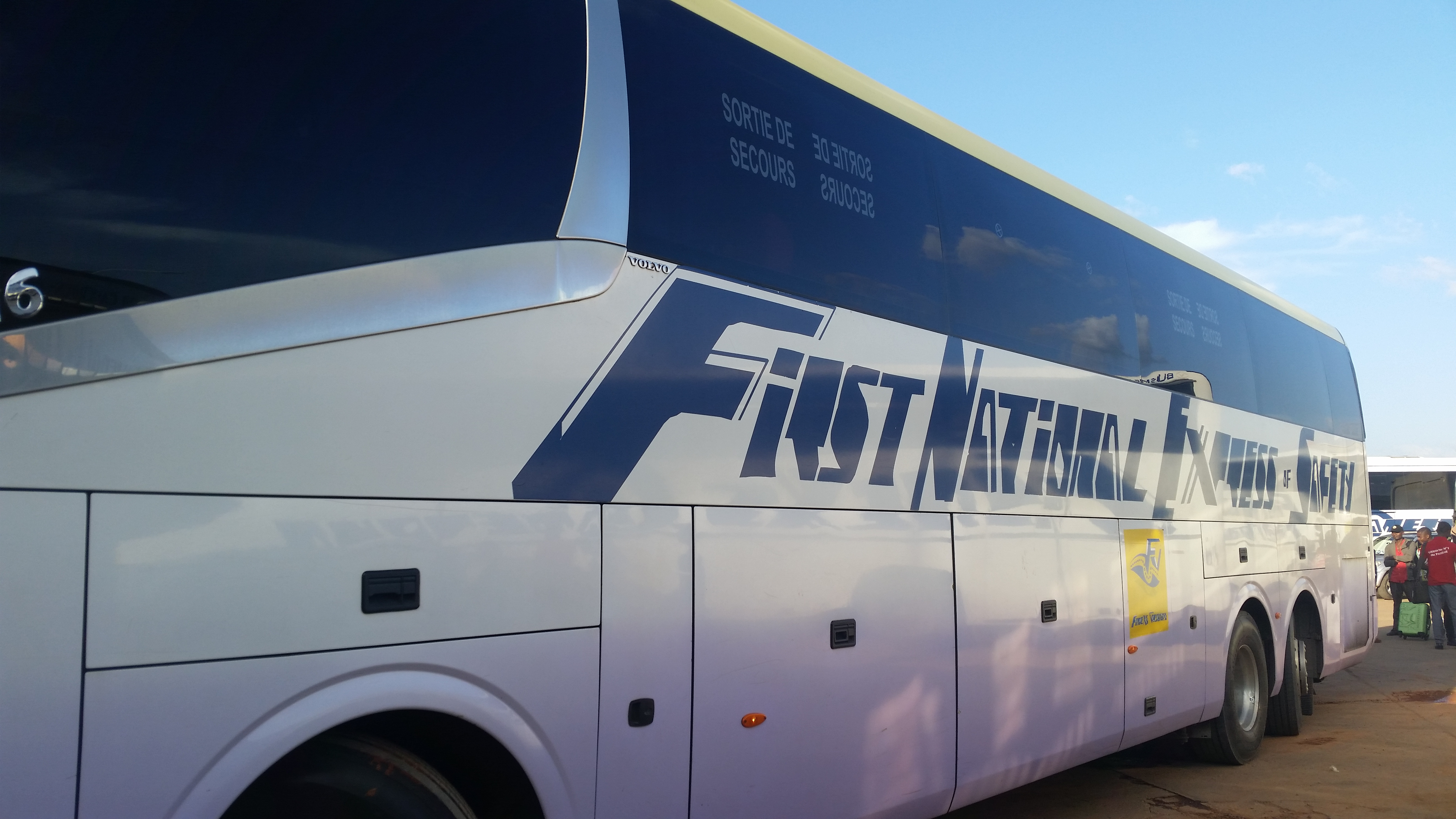 This is an image with the theme "Africa on the Move or Transport" from: Cameroon